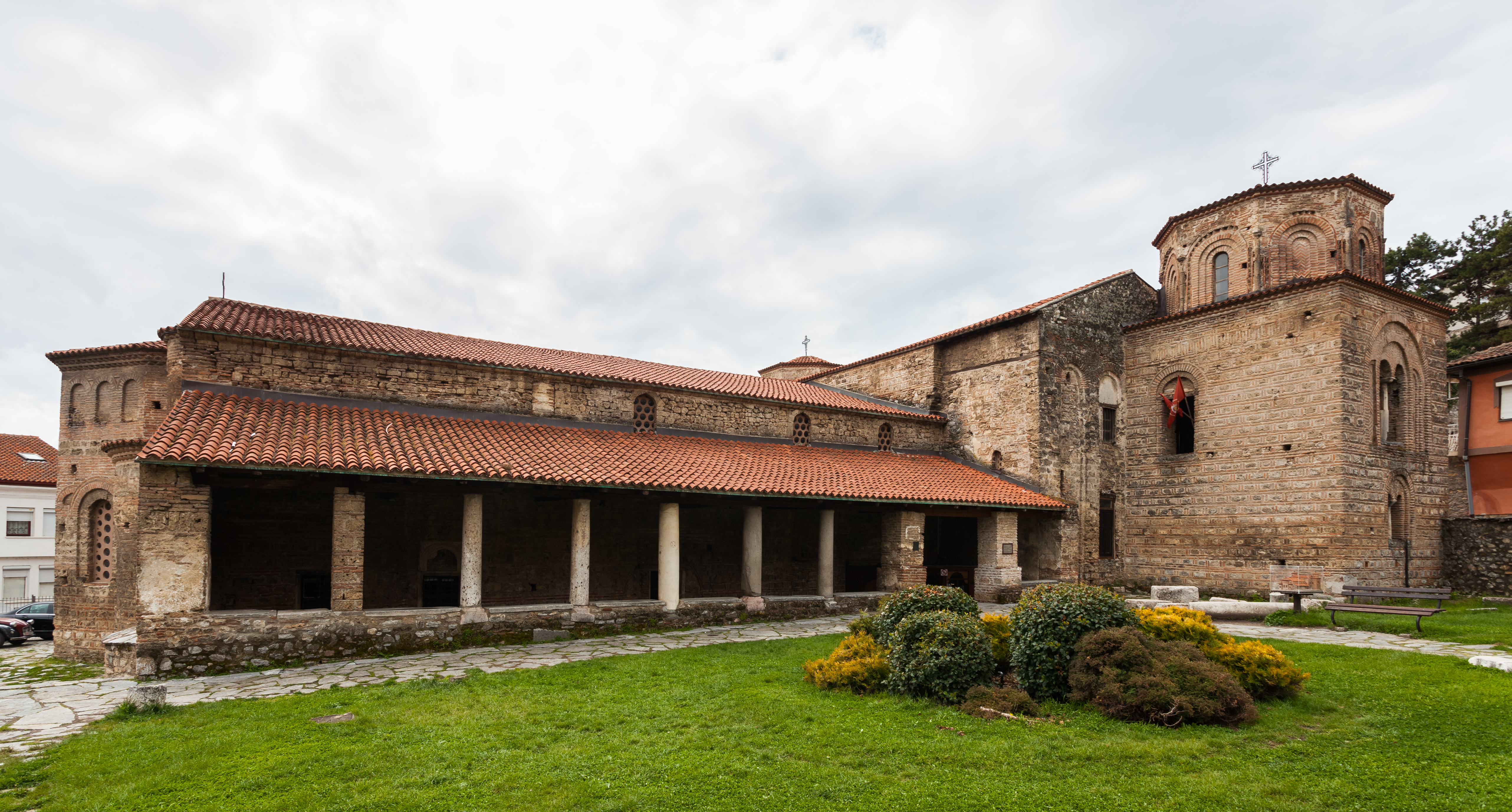 St Sophia church, Ohrid, Macedonia